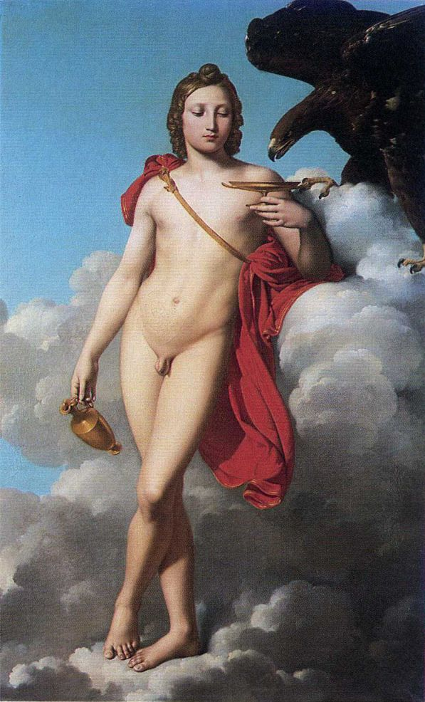 Ganymede